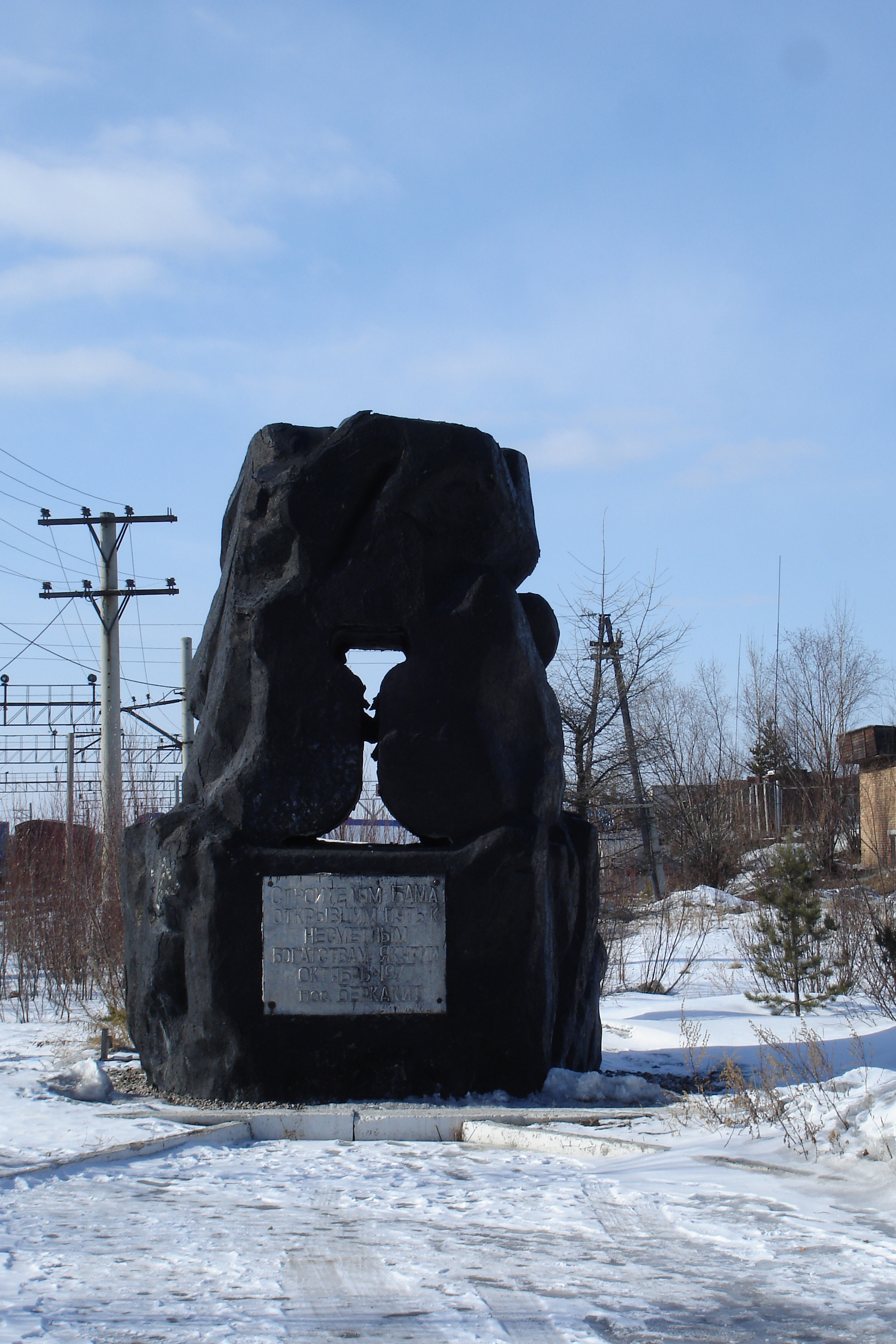 Monument of BAM builders in Berkakit. Inscription: BAM builders, opened way to glut of wealths of Yakutia. October 1977. set. Berkakit